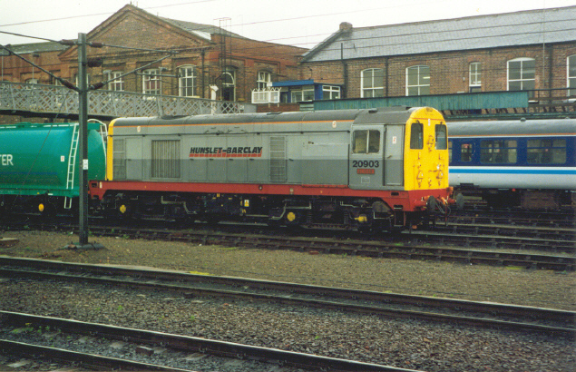 British Rail Class 20 at Doncaster.